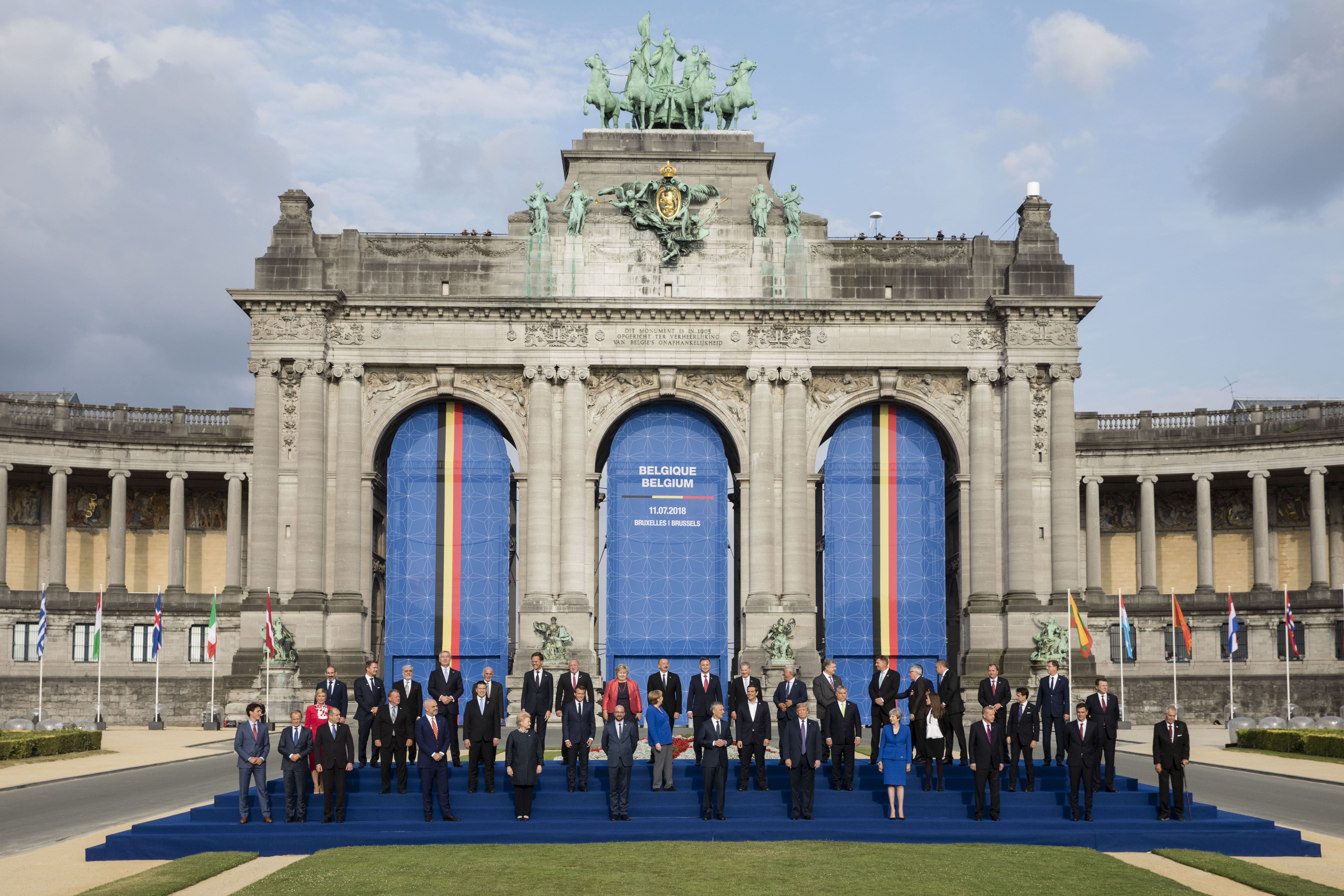 Visit to Belgium for participation in the NATO Summit